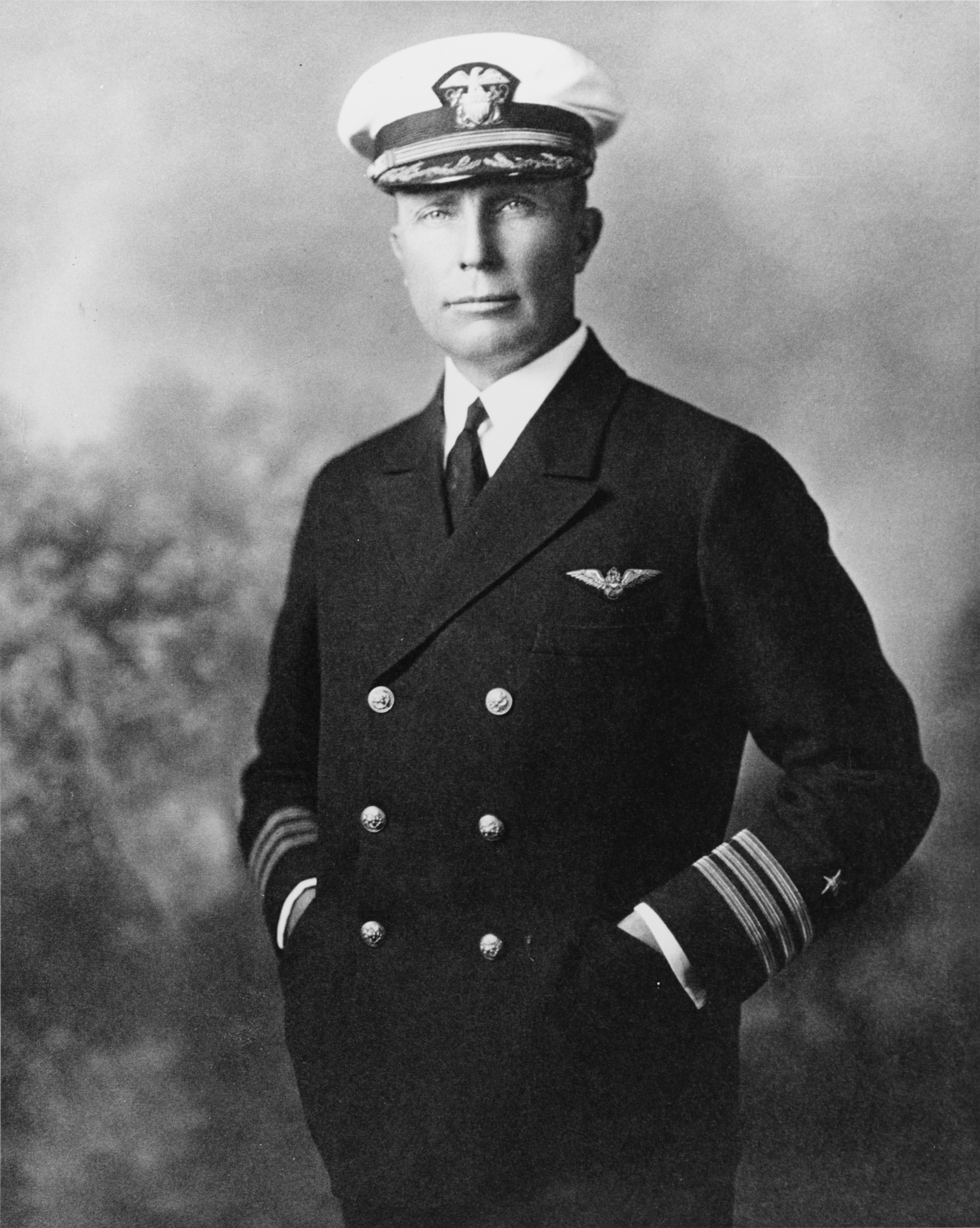 Commander John Rodgers, USN. Photographed by Harris and Ewing, circa 1920. Courtesy of the Naval Historical Foundation, Admiral William V. Pratt Collection.